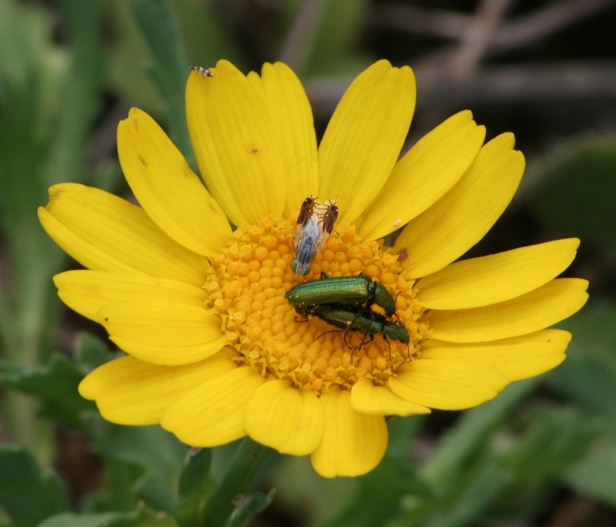 Tephritis divisa